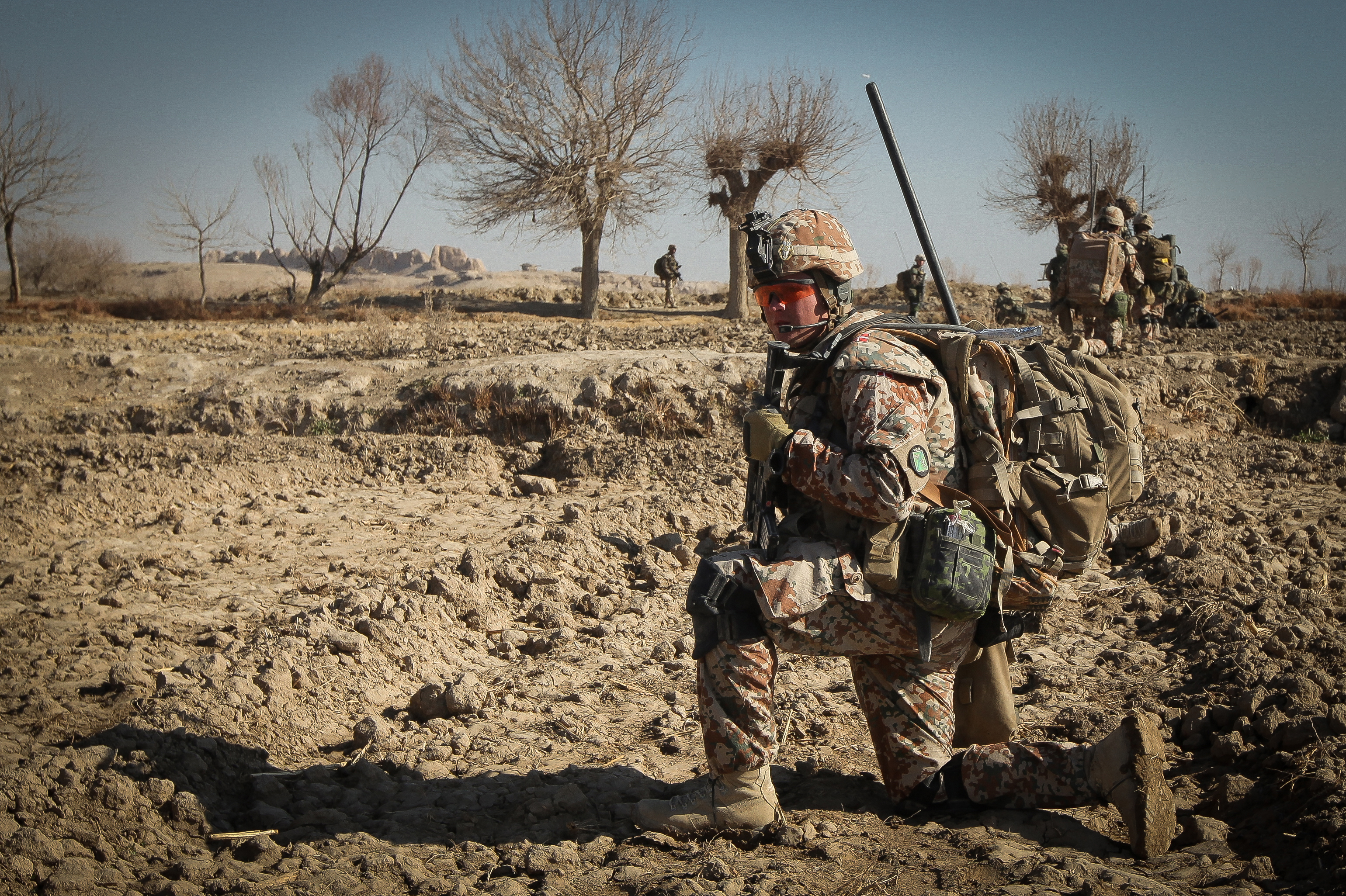 A Danish soldier surveys the Afghan plains while halted during a foot patrol in the district of Nahr-e Saraj, Helmand province. Soldiers from the Danish Battle Group provided security and assistance in Operation Shamali Kamarband, an Afghan-led route and compound clearing initiative throughout the district.